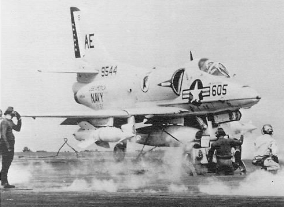 A U.S. Navy Douglas A-4C Skyhawk fighter (BuNo 149544) from Attack Squadron VA-64 Black Lancers on the catapult of the aircraft carrier USS America (CVA-66) on 8 June 1967. It is armed with two AGM-12C Bullpup missiles in response to the Israeli attack on the USS Liberty (AGTR-5). VA-64 was assigned to Attack Carrier Air Wing 6 (CVW-6) aboard the America for a deployment to the Mediterranean Sea from 10 January to 20 September 1967.